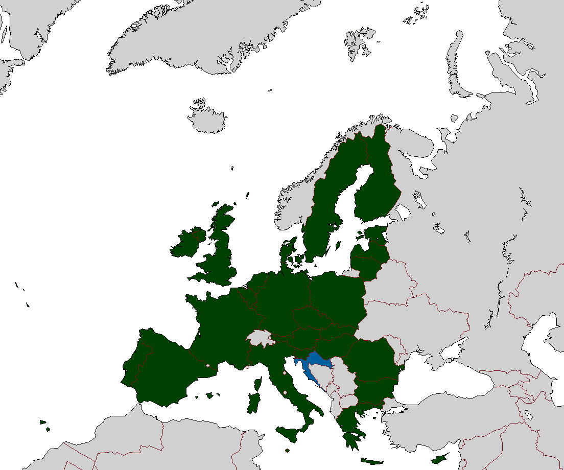 Map of the European Union, along side Croatia